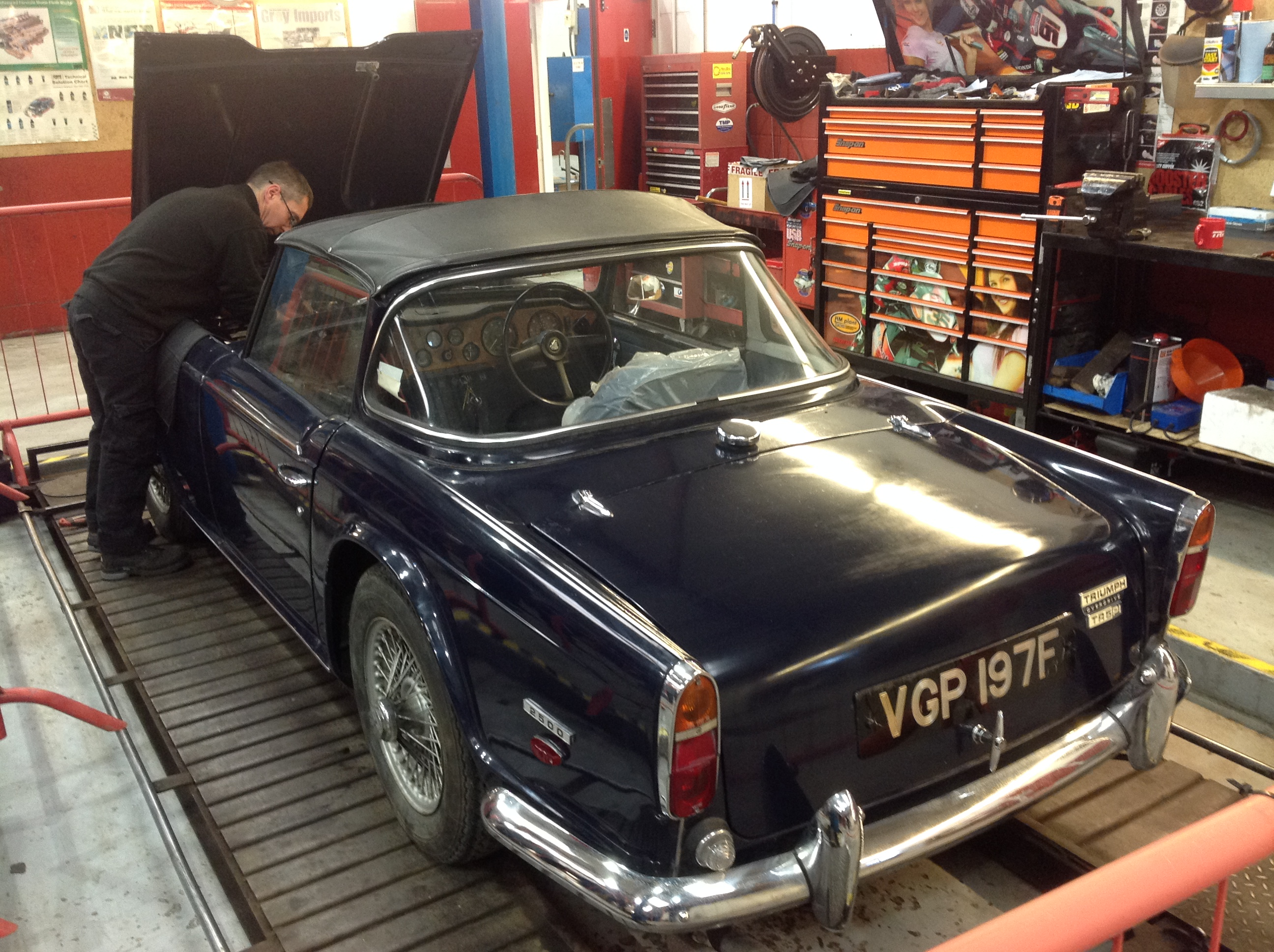 Haynes International Motor Museum Workshops Tour.